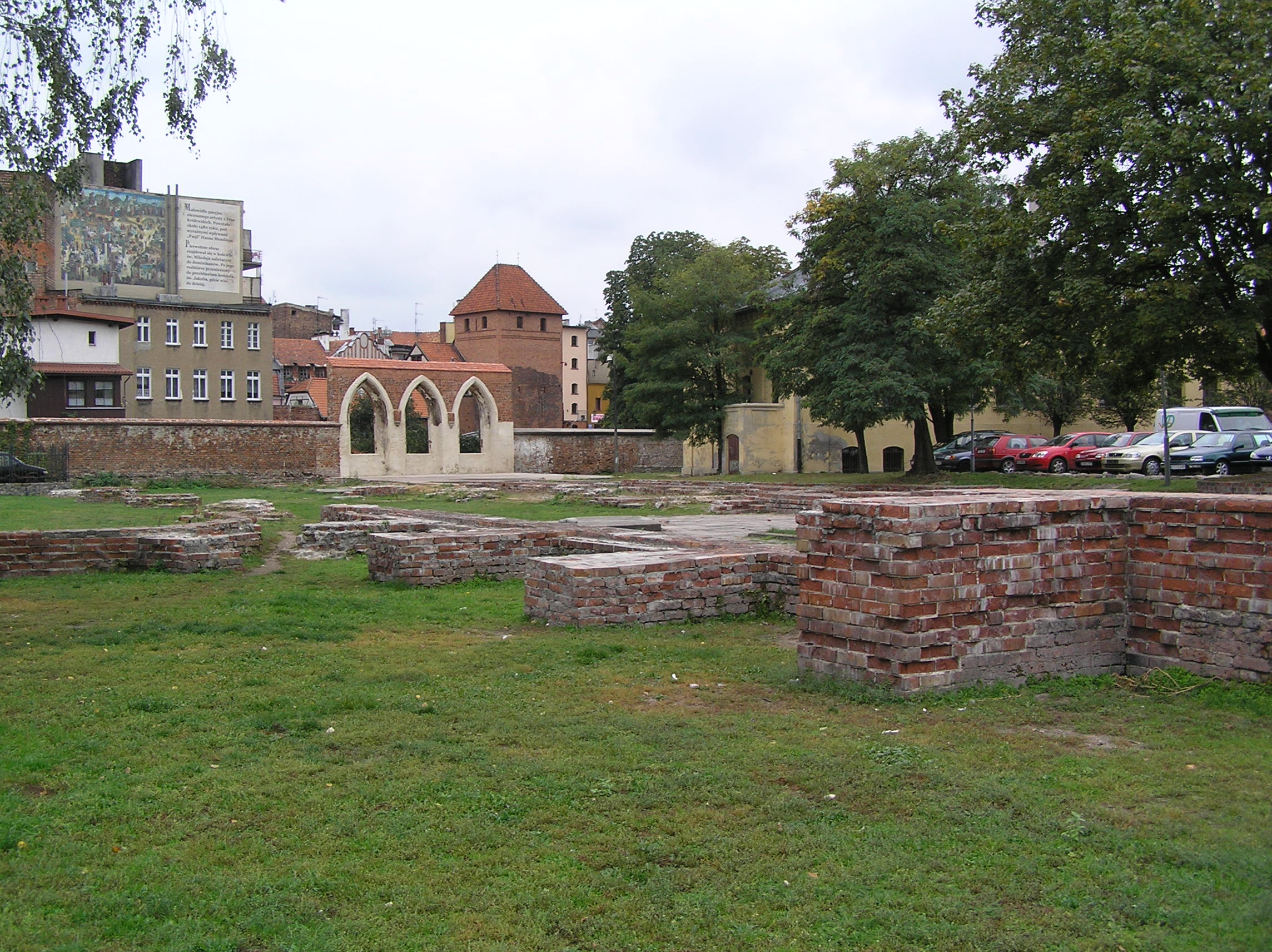 Toruń, remains of church of St. Nicholas and Dominican Cloister